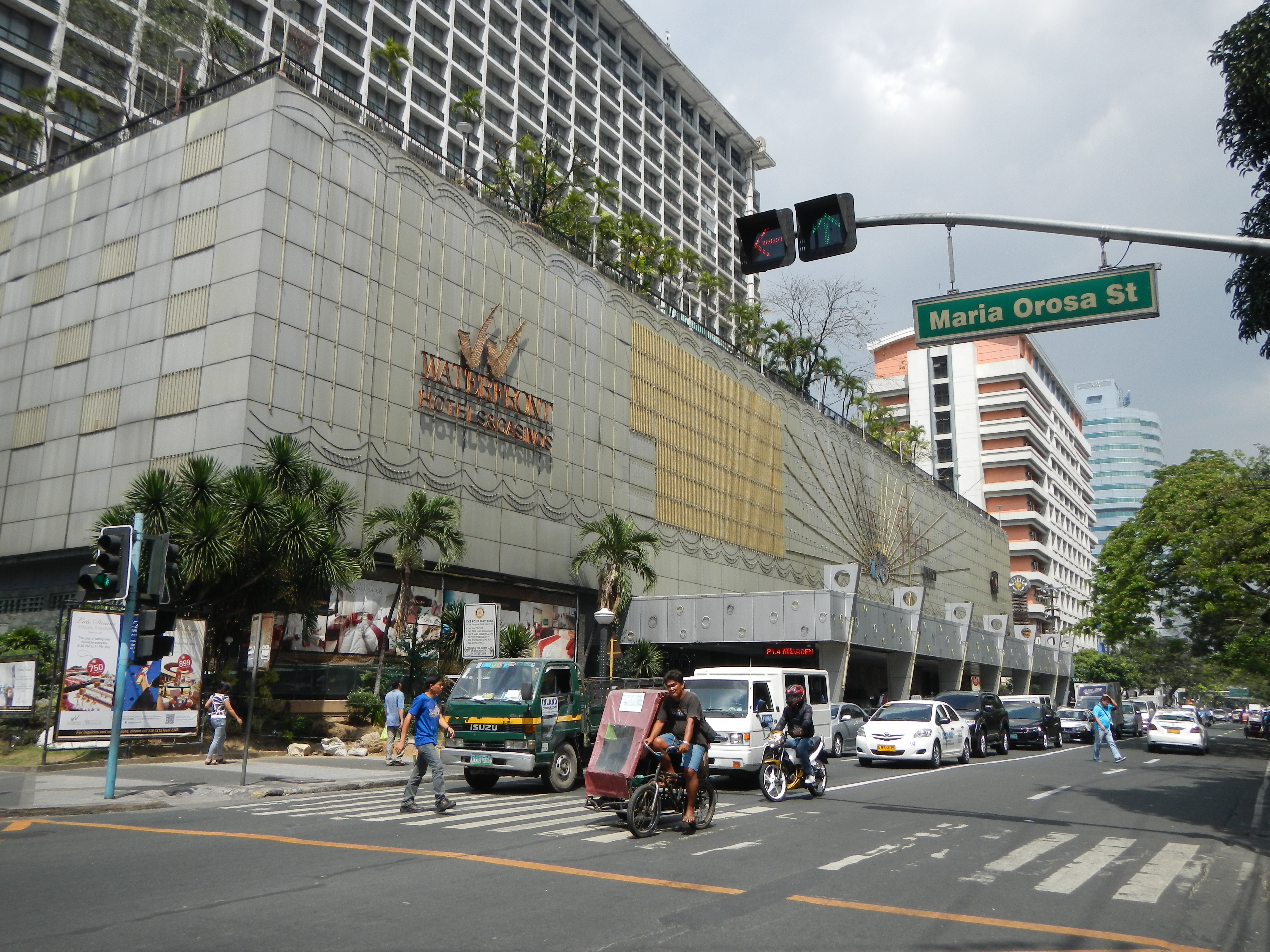 Photos of - Times Plaza, Calle General Luna and United Nations Avenue corner Taft Avenue, Ermita, Manila and nearby is the - Waterfront Manila Pavilion Hotel and Casino Maria Orosa Street (Calle Flórida) Ermita, Manila cor United Nations Avenue, Ermita.